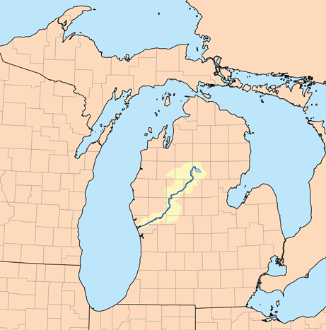 Map of the Muskegon River watershed.